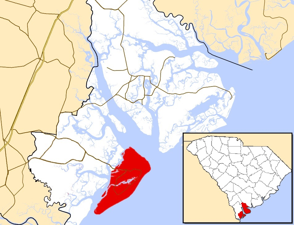 Map of Hilton Head Island, SC (based on similar Bluffton, SC map)